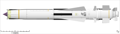 Hawker Siddelley Dynamics CF.299 Sea Dart GWS-30 missile, drawn using XaraX software by Emoscopes 05:25, 19 November 2005 (UTC)